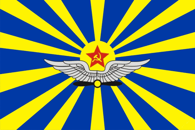 Flag of the Soviet Air Force